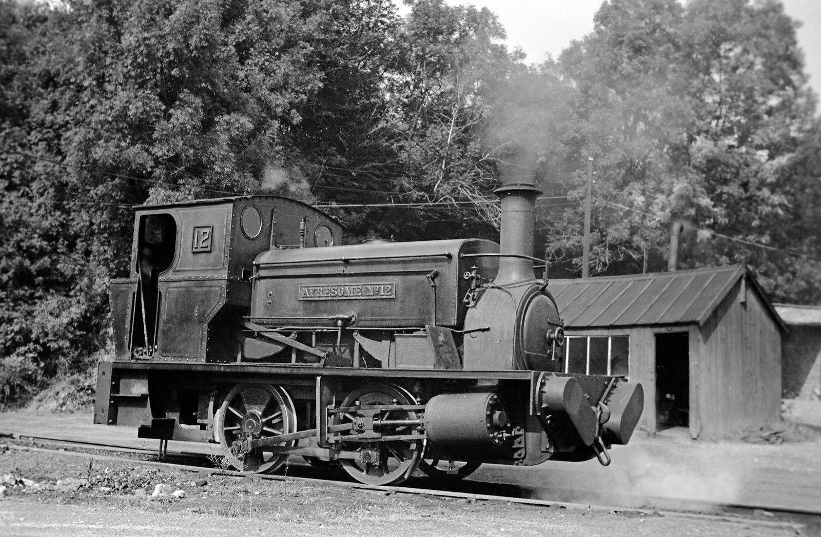 Builder: Manning Wardle & Co. Ltd Type: 0-4-0ST Works No. 1903 Built: 1916 Name: Ayresome No.12 Location: Aycliffe Lime & Limestone Co. Ltd, Aycliffe, Co. Durham.